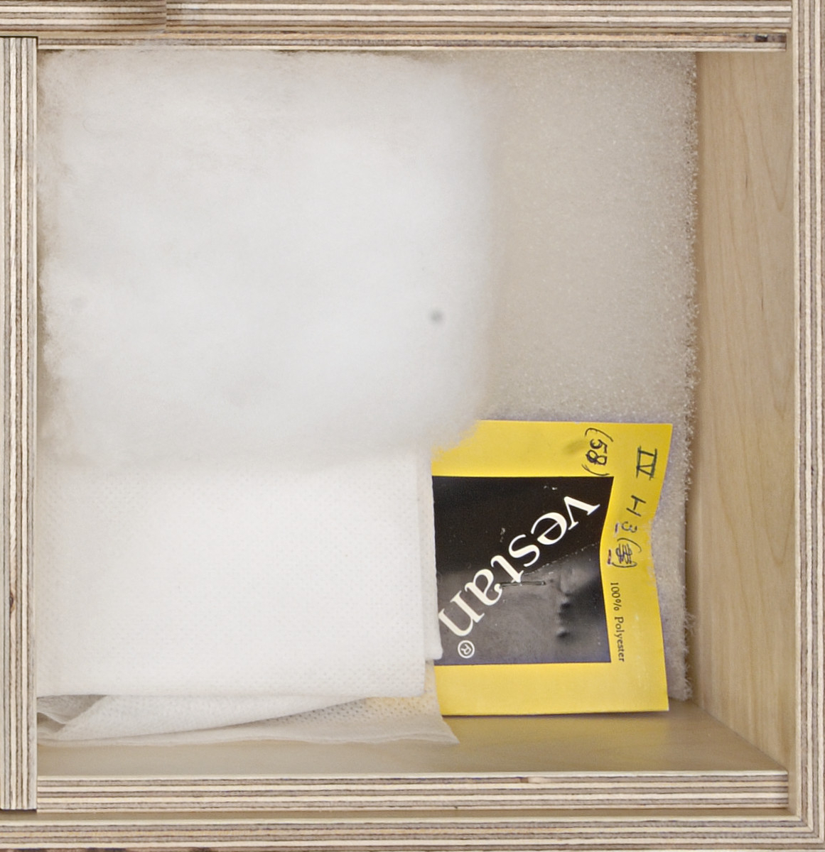 Fiberfill. Part of: Polyetheen (PE) and Polyester (PES). Tray and samples of the textile cabinet in the Textielmuseum in Tilburg. Cabinet interior made by Simone de Waart, Material Sense.